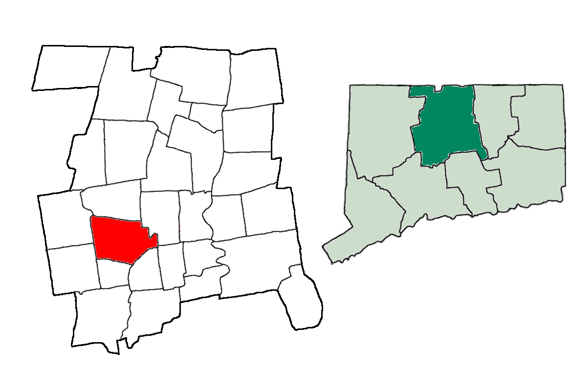 Created by editing Hartford Hartford.png by SoundGod3 which was created using data from the US Census Bureau.